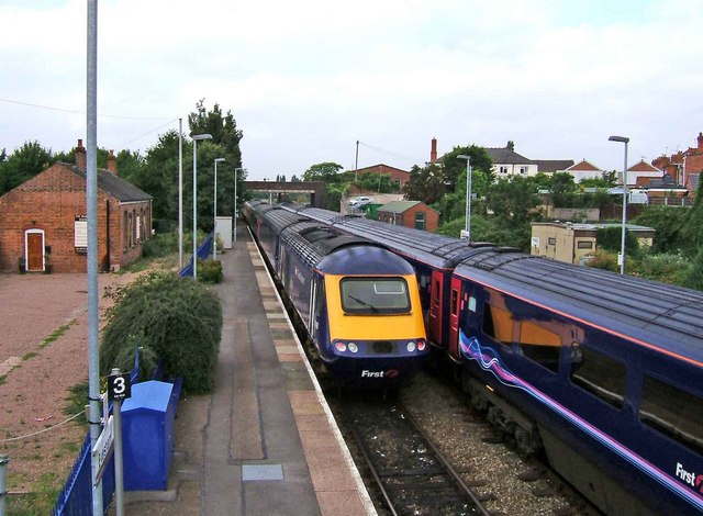 First Great Western express service leaving Evesham Railway Station The train on the left has just called at Evesham and is now departing for Pershore and Worcester. The train on the right is waiting at the station to depart. It is bound for London Paddington via Oxford. The railway each side of the station is currently single track, so trains have to pass at this point. Because the platforms at Evesham were never designed for long trains, passengers alighting here need to make sure they are in the first four carriages of the train.